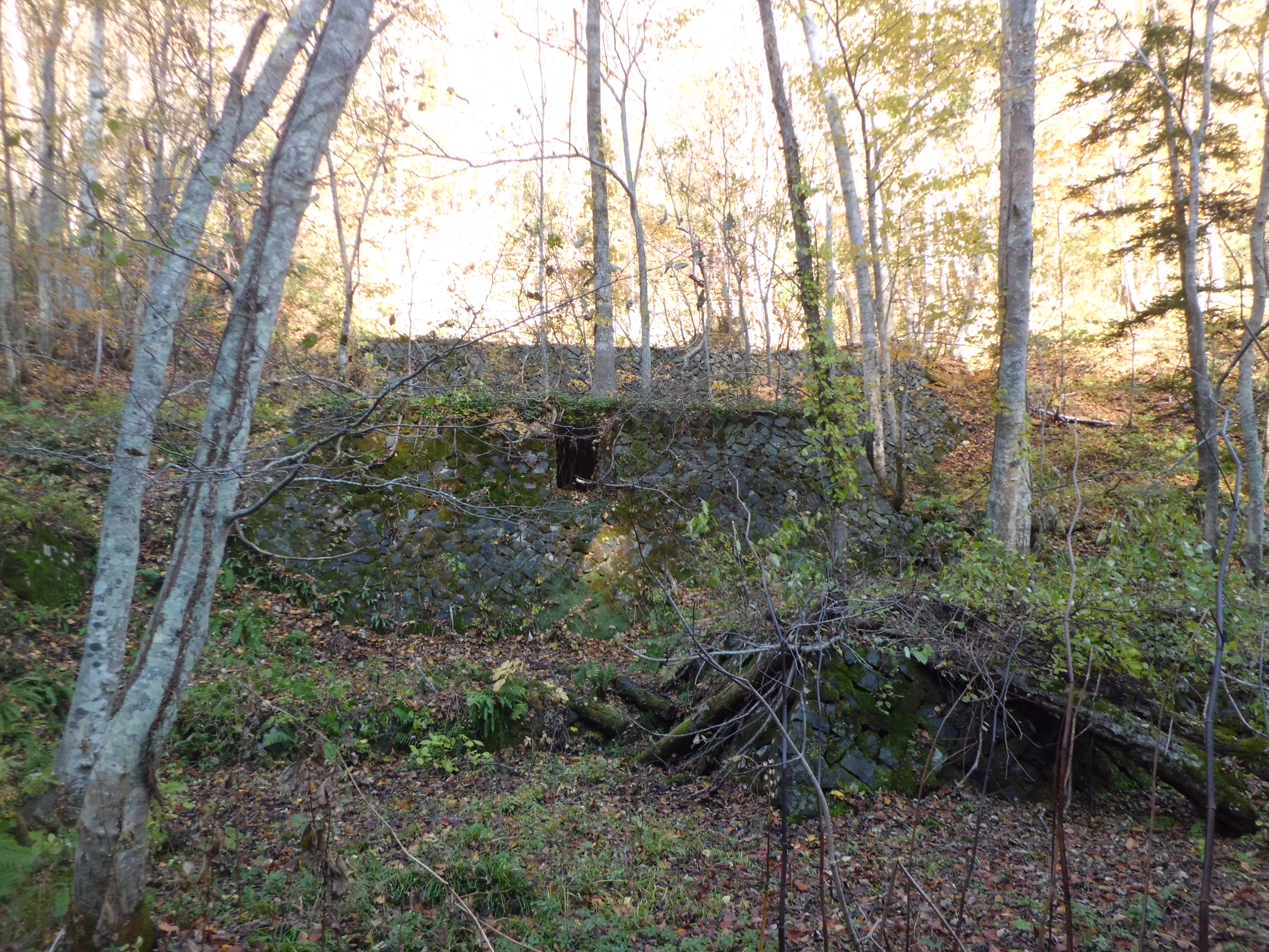 Ruins of Sapporo Mine